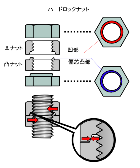 HARDLOCK nut HARDLOCK nut is consist by 2 nuts. Lower nut has an un-coaxial projection. When the other upper nut meets the lower one, projection ring will fit inside the upper's hollow except the bold side. the tapered bold side of the projection ring will bite the hollow of the upper nut and push them each other. This side force strangle the nut and harden the lock.